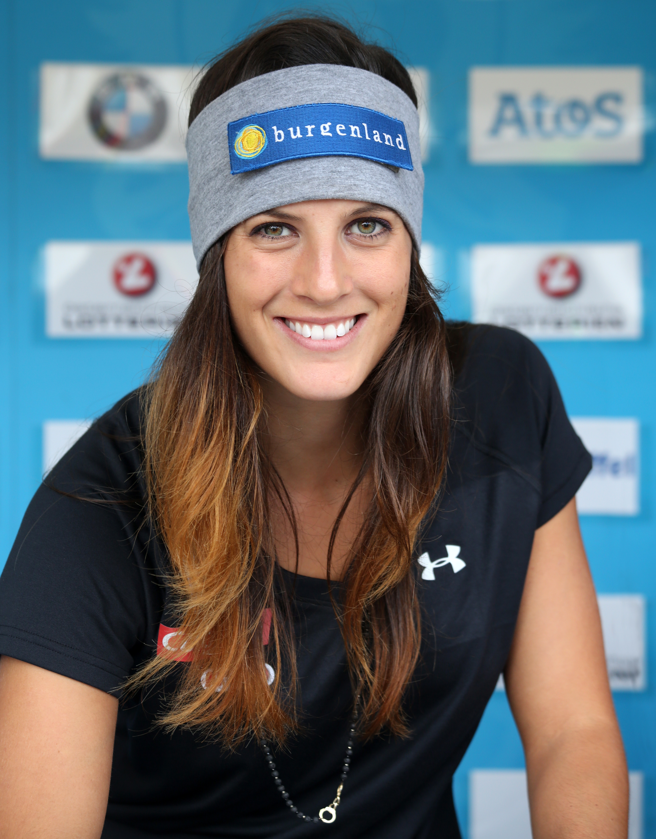 Julia Dujmovits at the Tag des Sports (Day of Sports) 2013 on Heldenplatz in Vienna, Austria.